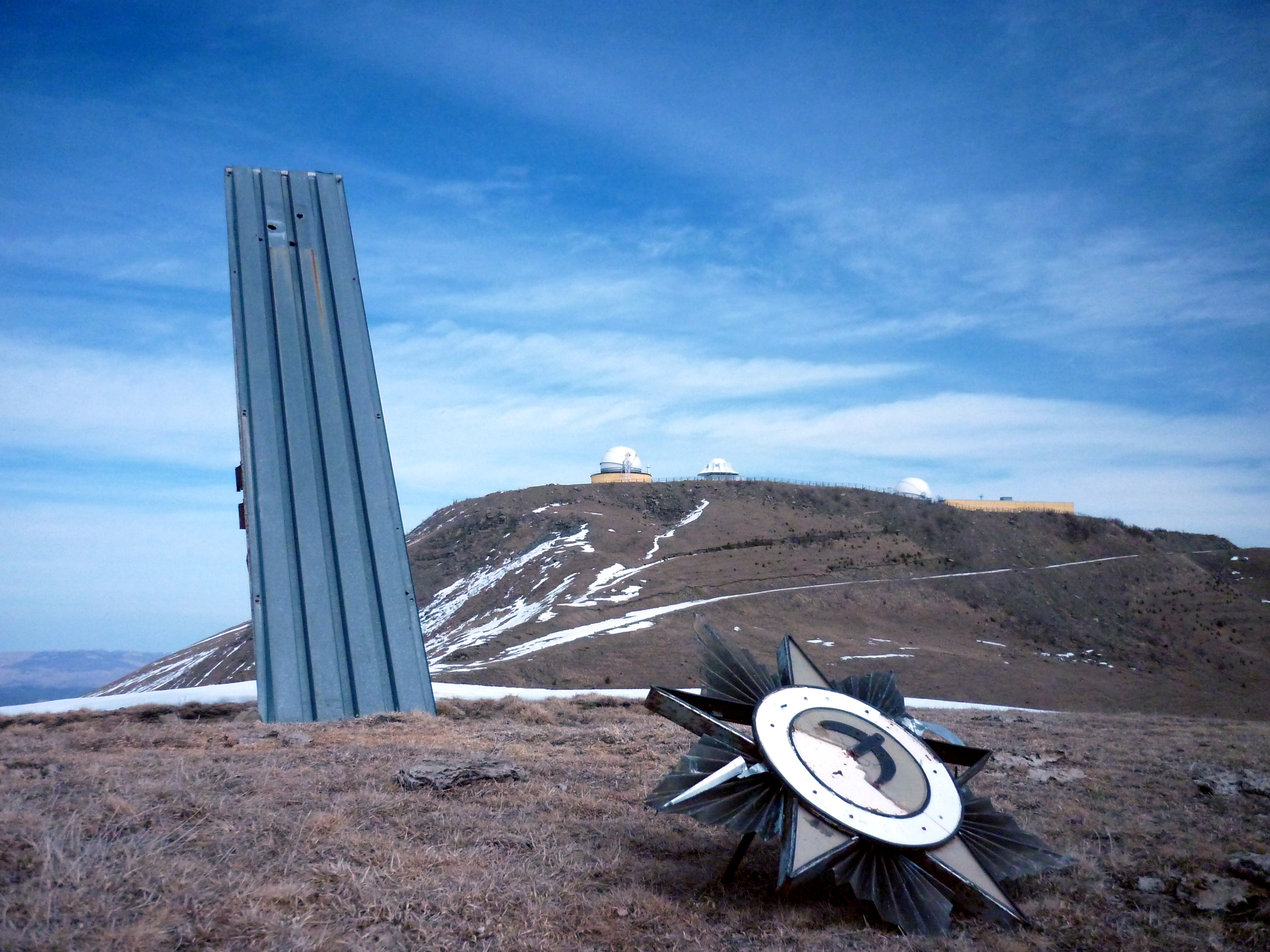 Nearby Chapal mountain, old soviet obelisk This image is related to the protected area of Russia number 0910021